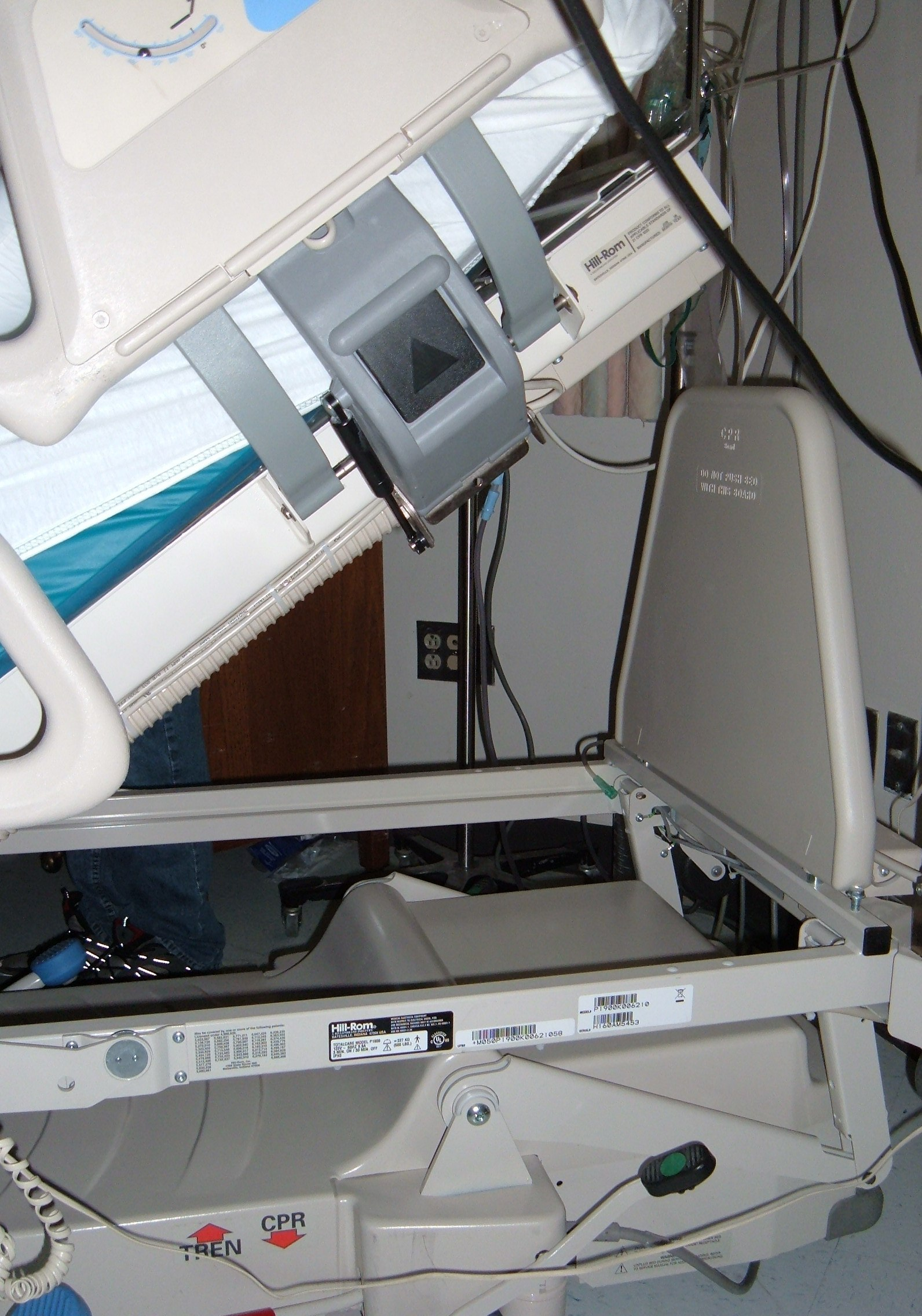 A partially elevated (patient's upper body) Hill-Rom hospital bed.